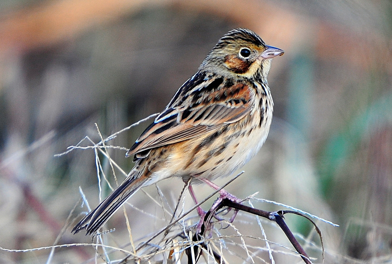 Chestnut-eared Bunting (Emberiza fucata, also called Grey-headed Bunting)